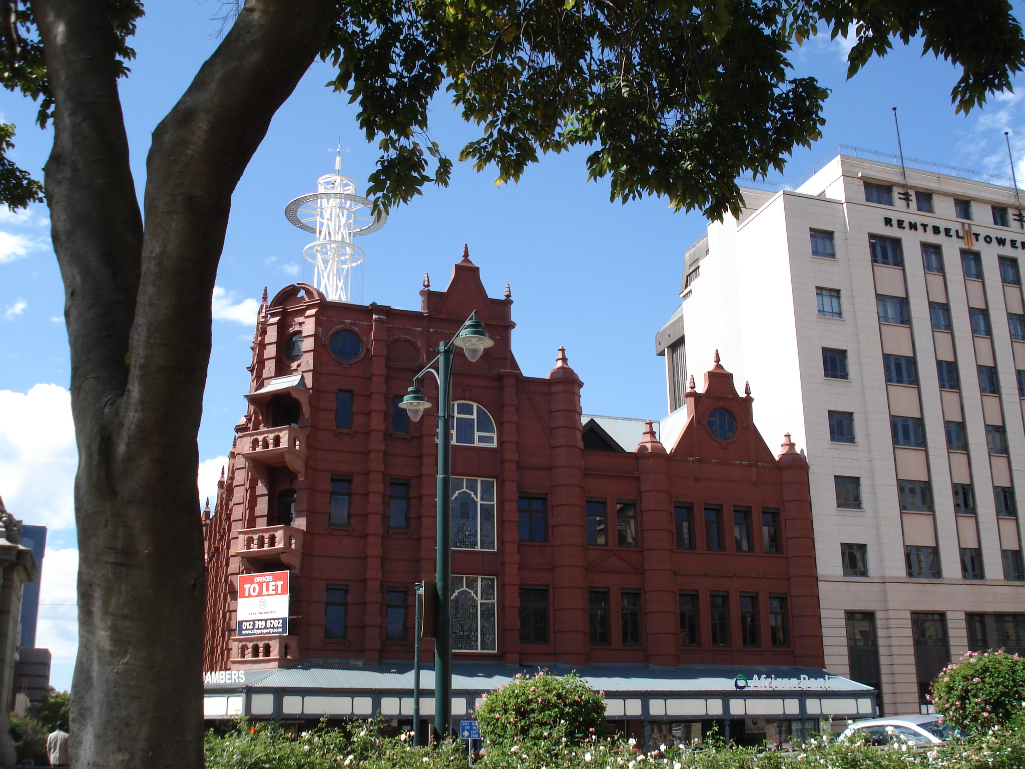 This media shows a South African Protected Site with SAHRA file reference 9/2/258/0074.